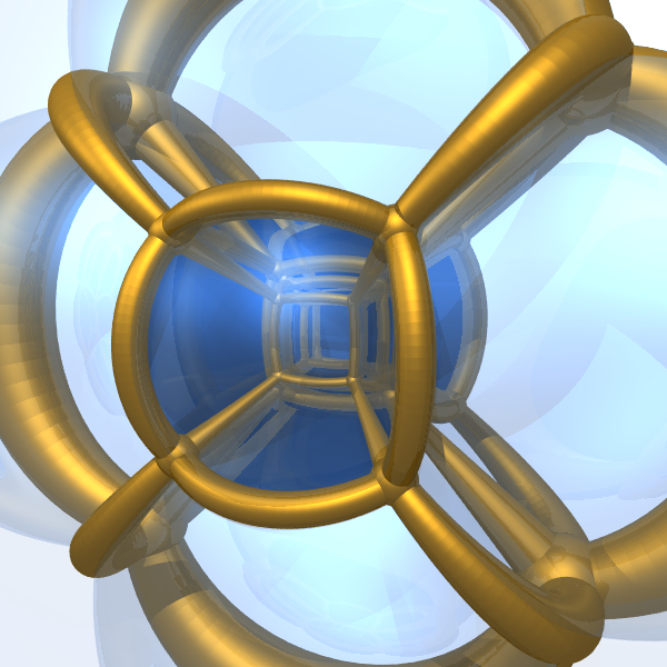 projection of penteract (perpective, stereographic, Schlegel diagram)